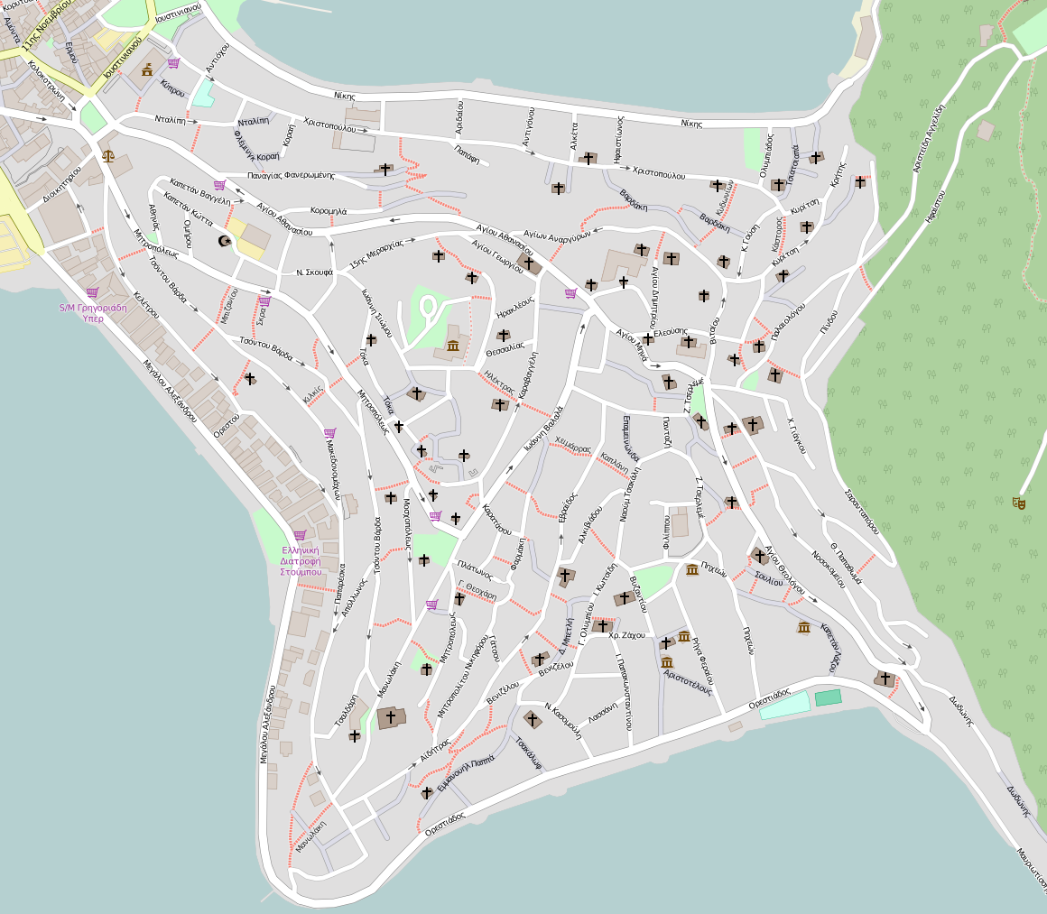 OpenStreetMap - Map of Kastoria center